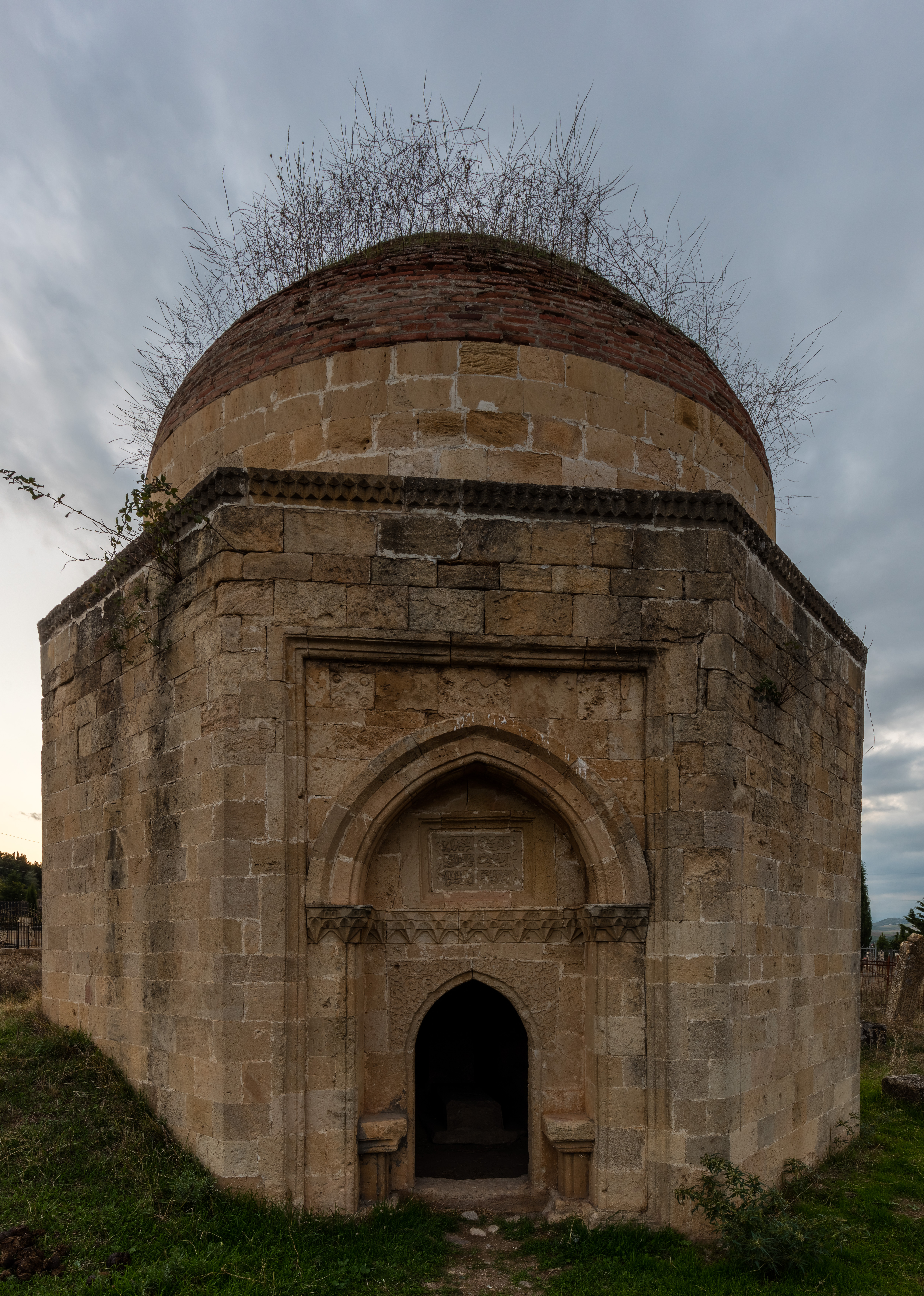 Yeddi Gumbez Mausoleums, Shamakhi, Azerbaijan